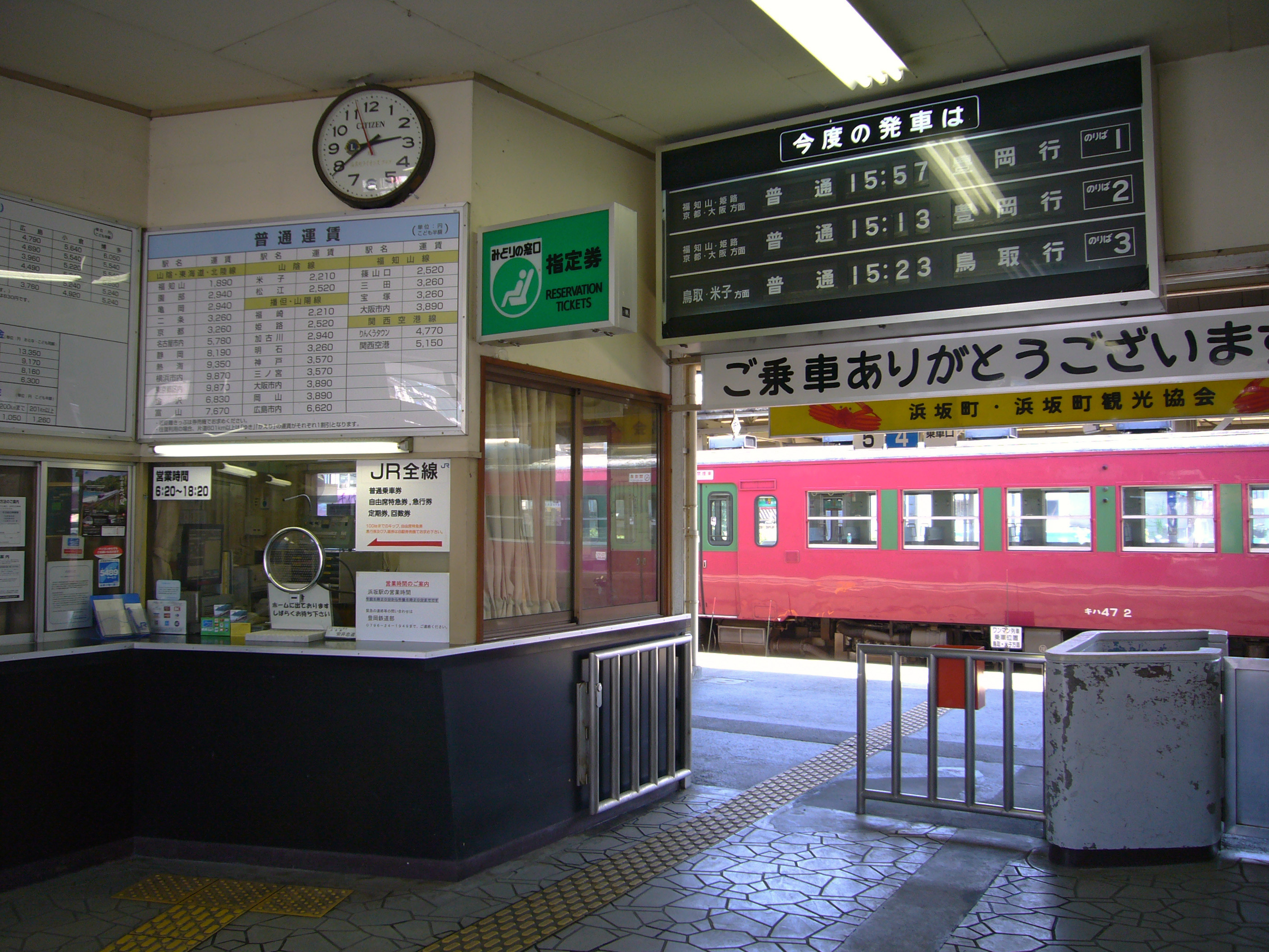 Hamasaka Station in Shinonsen, Hyogo prefecture, Japan